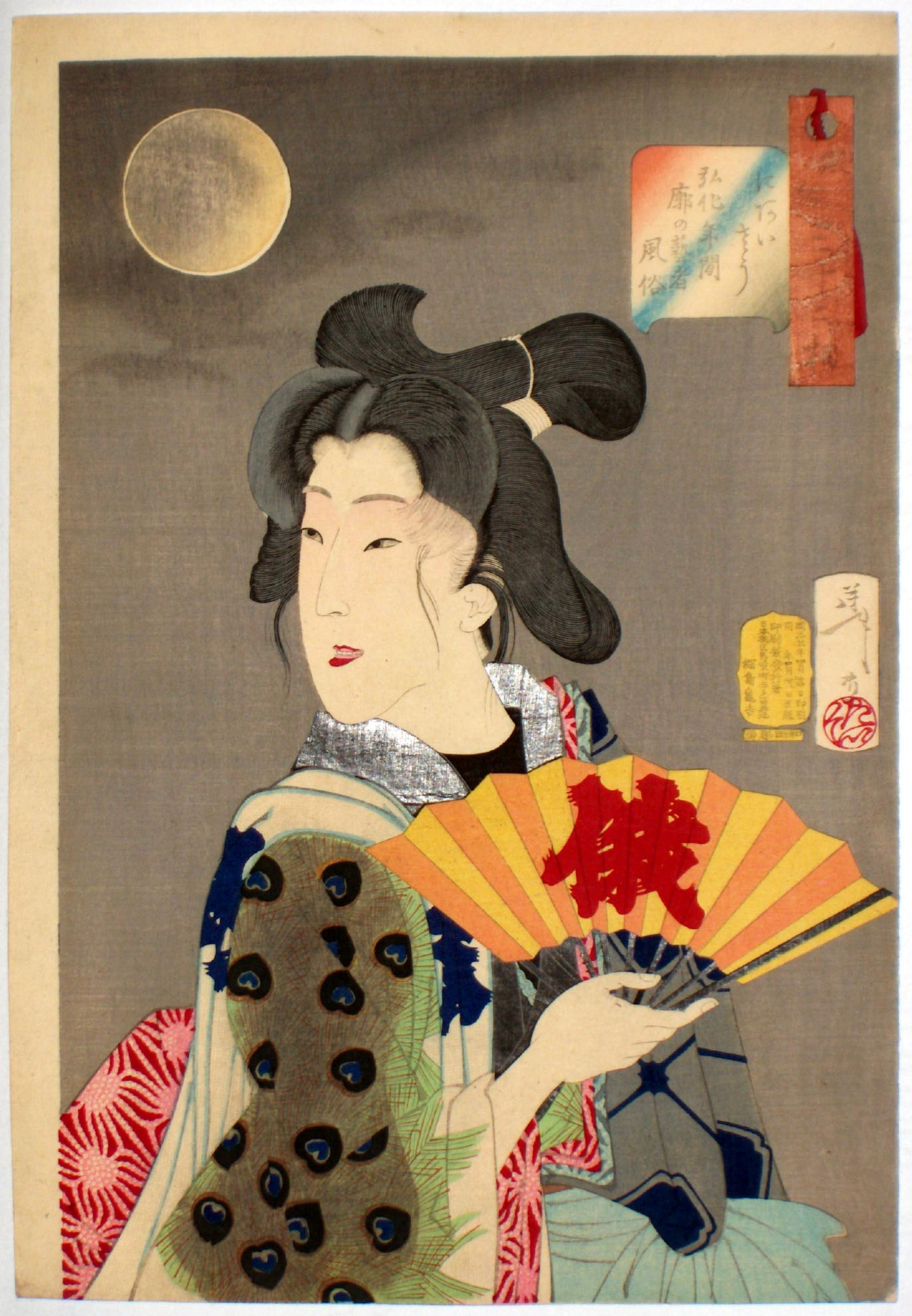 Tsukioka YOSHITOSHI (1839-1892) "Looking Suitable: The Appearance of a Brothel Geisha of the Koka Era" (1844-1848). From the set: Thirty-two Aspects of Women published by Tsunashima Kamekichi, 1888.